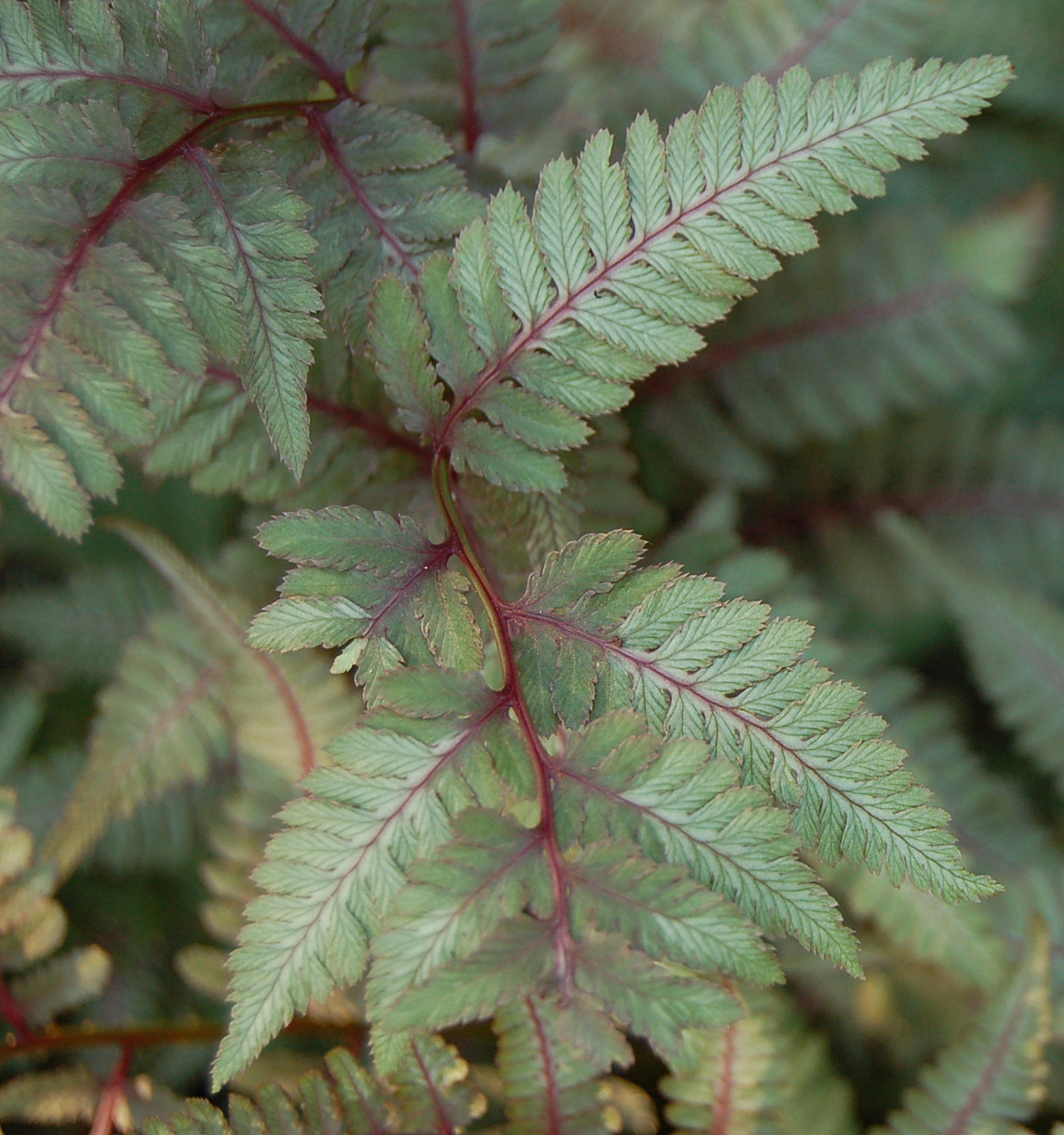 A photograph of the leaf of the Japanese Painted Fern (Athyrium nipponicum 'Pictum'). Photo taken at the Tyler Arboretum where it was identified.